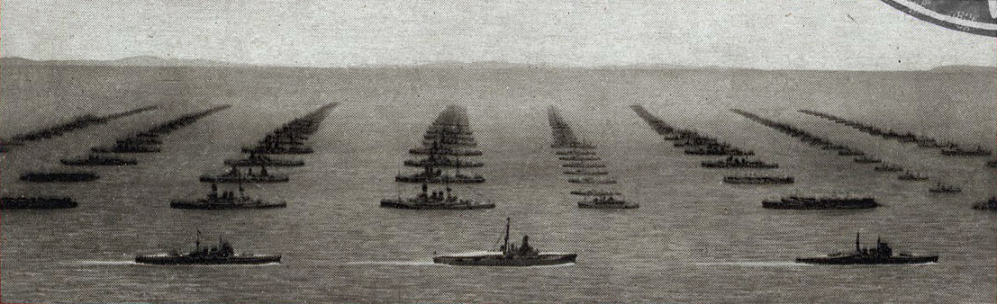 Special naval review of the Imperial Japanese Navy(Japanese imperial reign 2600 ceremony).